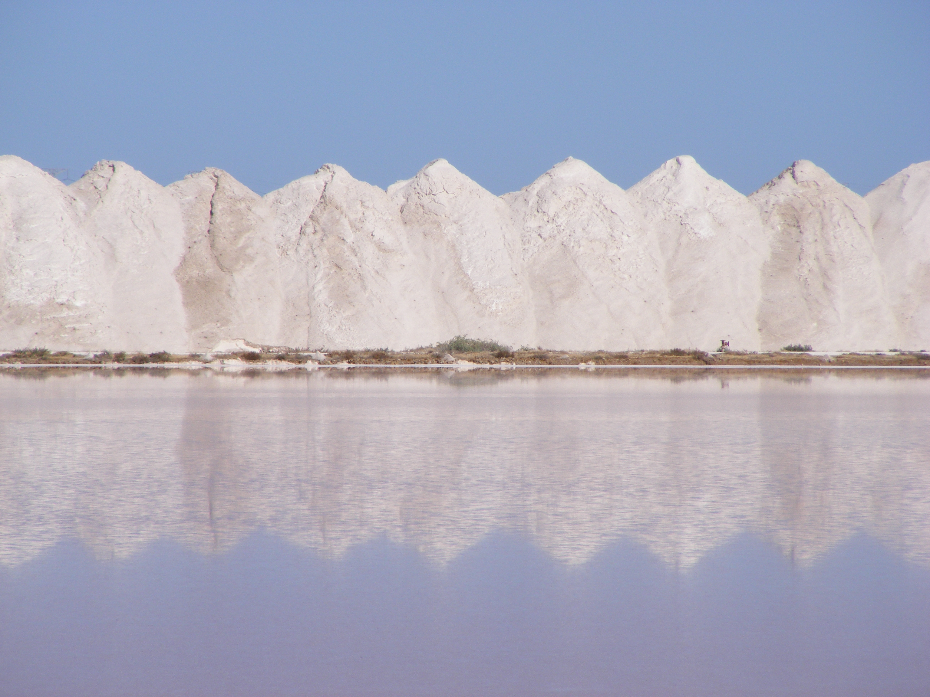 Harvested Salt mounds. Dry Creek, Adelaide, South Australia